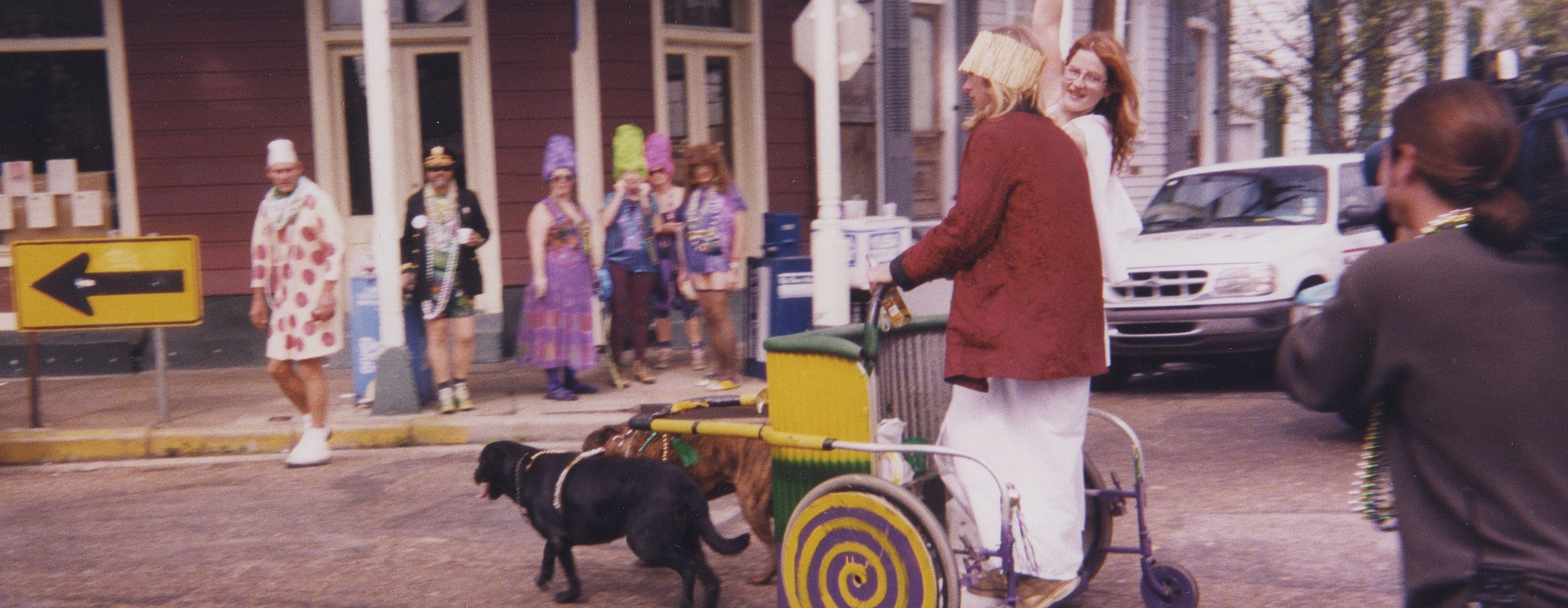 New Orleans: Dog pulled chariot on Mardi Gras. Photo by Infrogmation. Taken Mardi Gras day, 1999, in the Faubourg Marigny neighborhood of New Orleans, Louisiana.